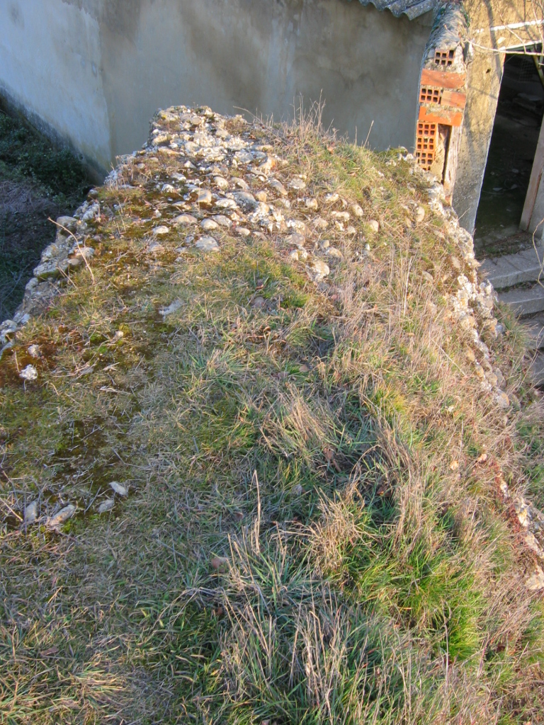 Castle of Castrillo de Villavega (Palencia, Castile and León).